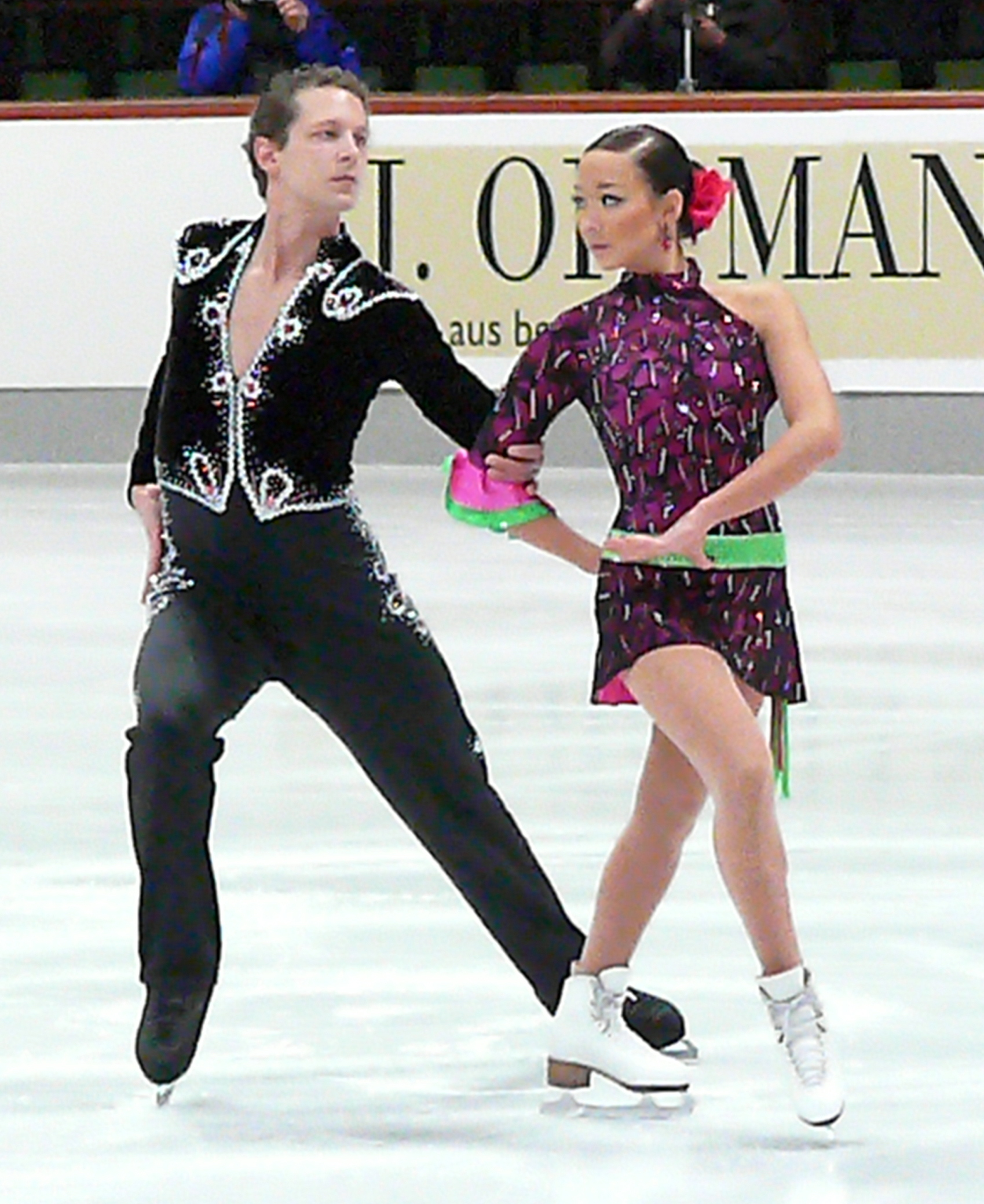 Mari Vartmann and Florian Just at the Free Program of the German Championships in Figure Skating Pairs 2007 Oberstdorf